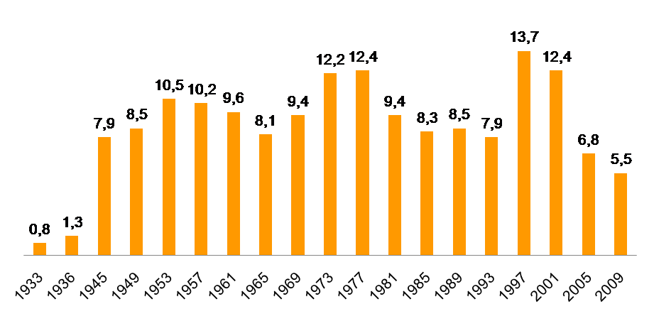 Electoral results of the Norwegian Christian Democratic Party since 1933.